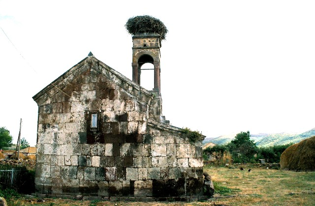 Baraleti